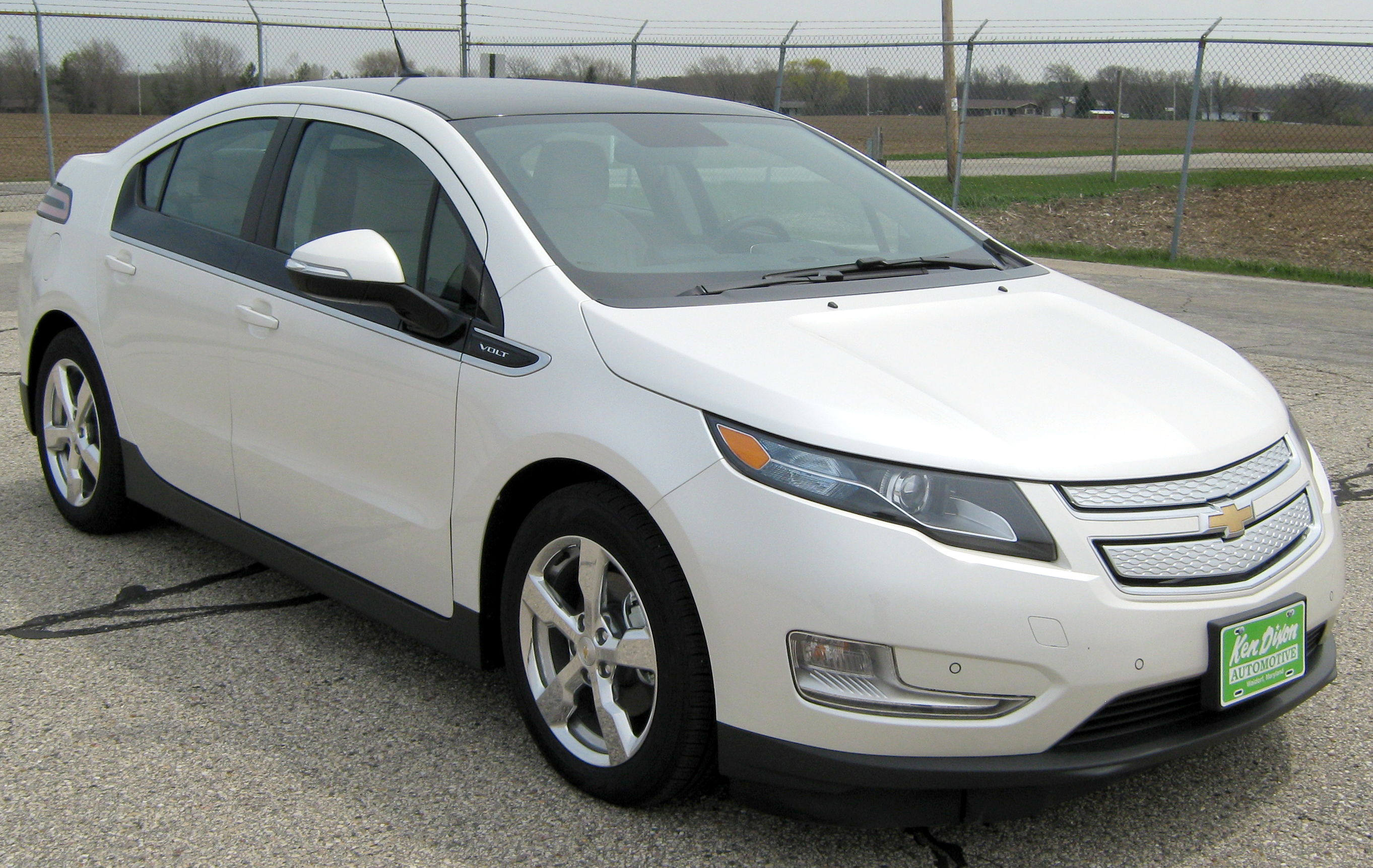 2011 Chevrolet Volt photographed in USA.